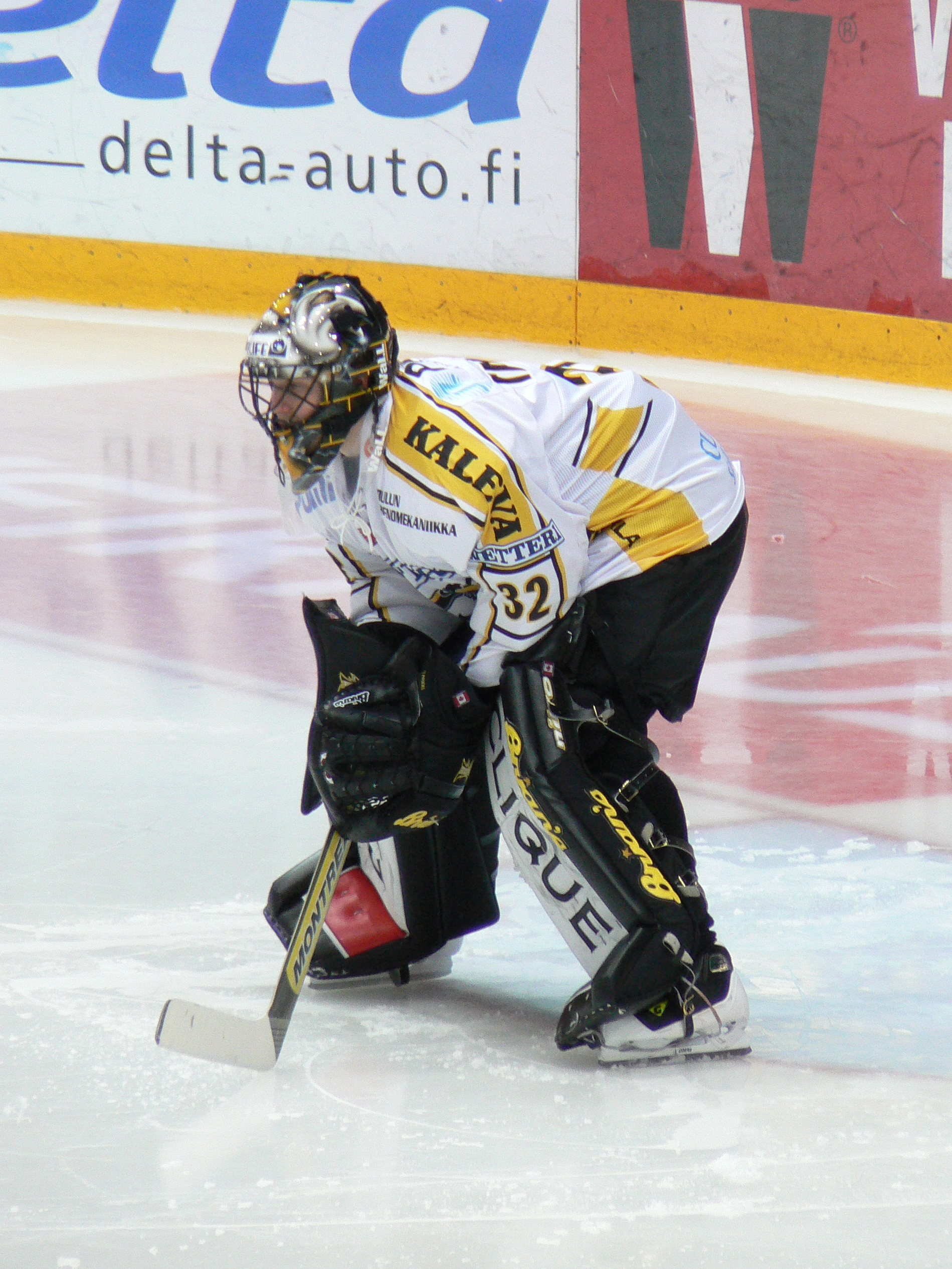 Finnish ice hockey goaltender Tuomas Tarkki playing for Kärpät Oulu in September 2007.